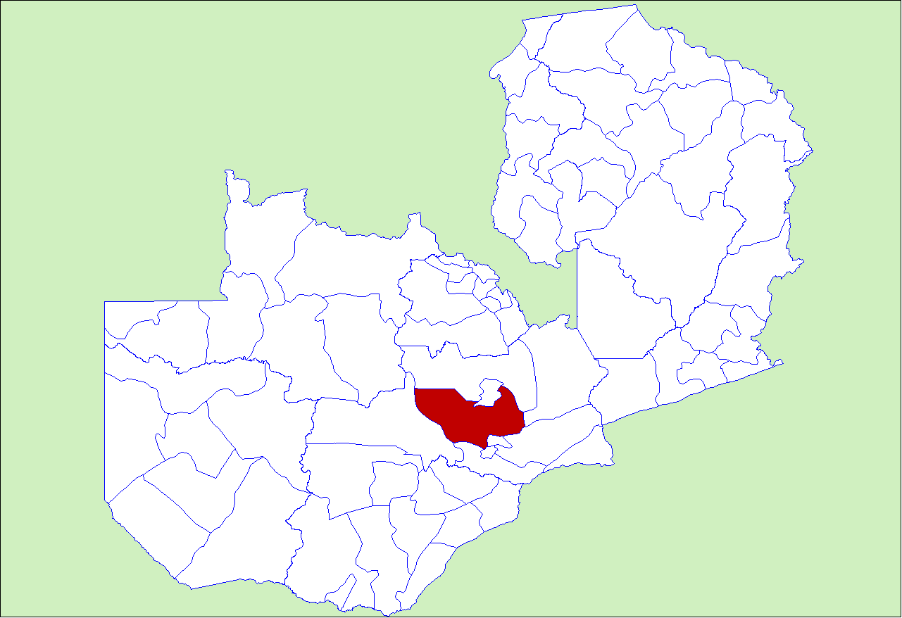 District locator in Zambia